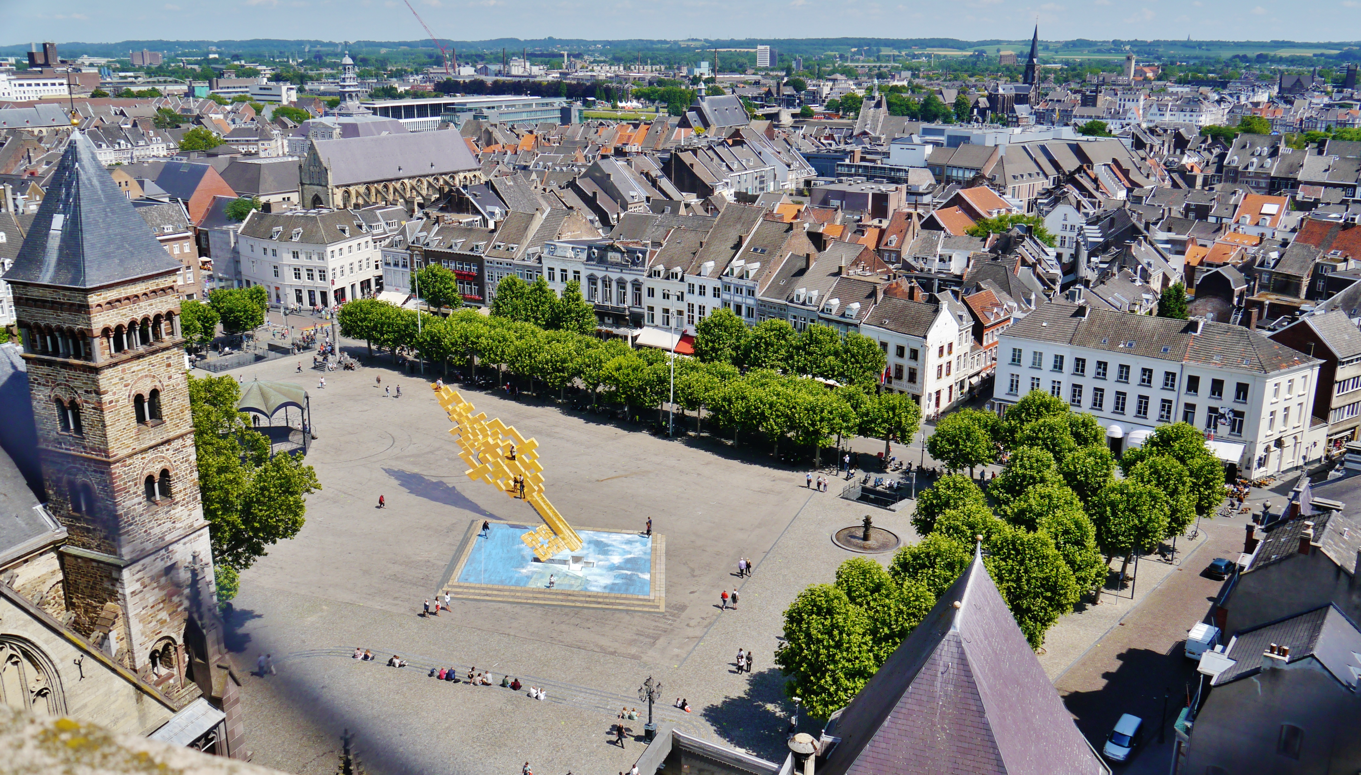 View from the Tower of John's Church to the Vrijthof, Maastricht, Province of Limburg, Netherlands